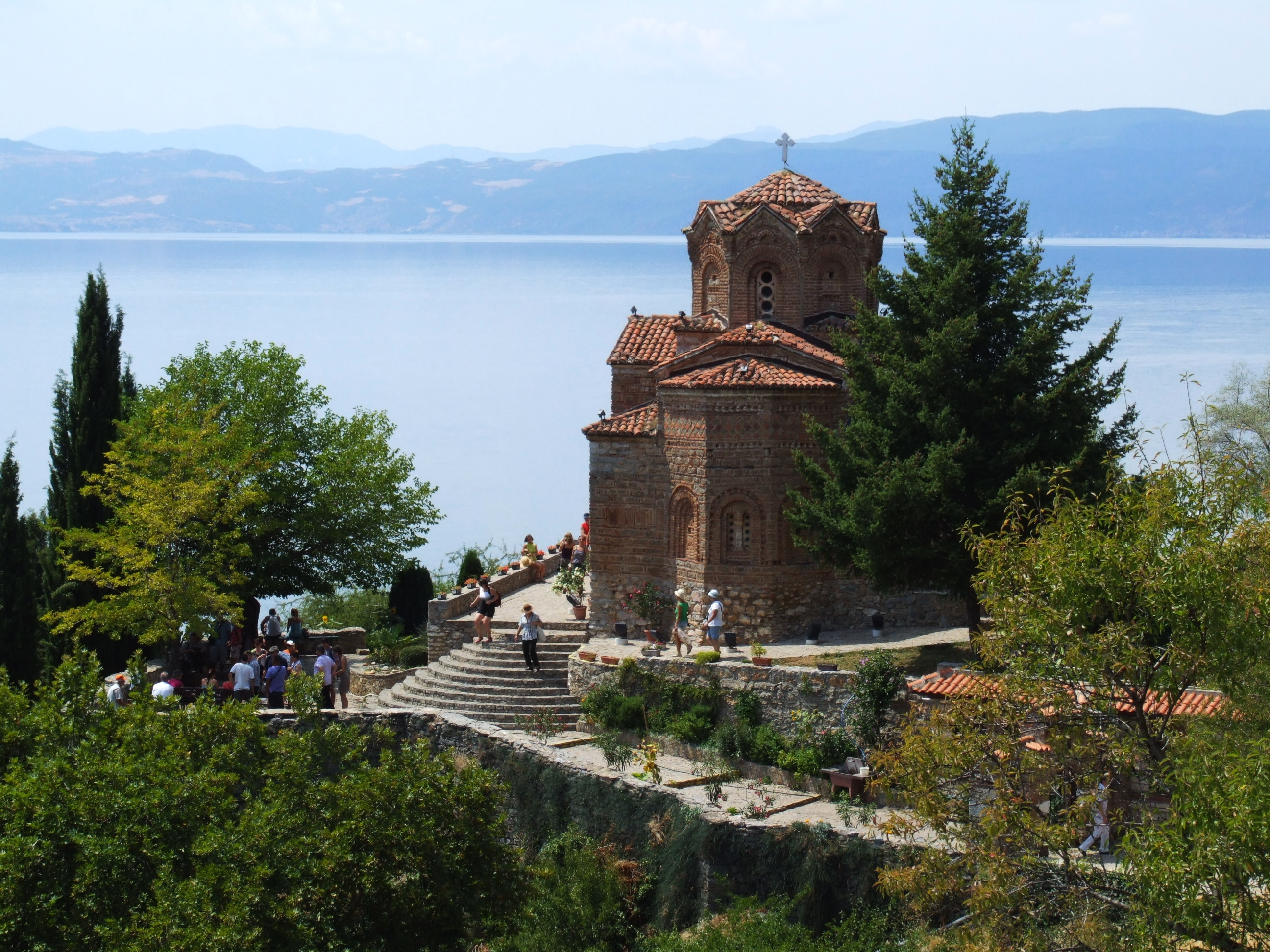 Ohrid, Macedonia - Church of St. John of Kanevo